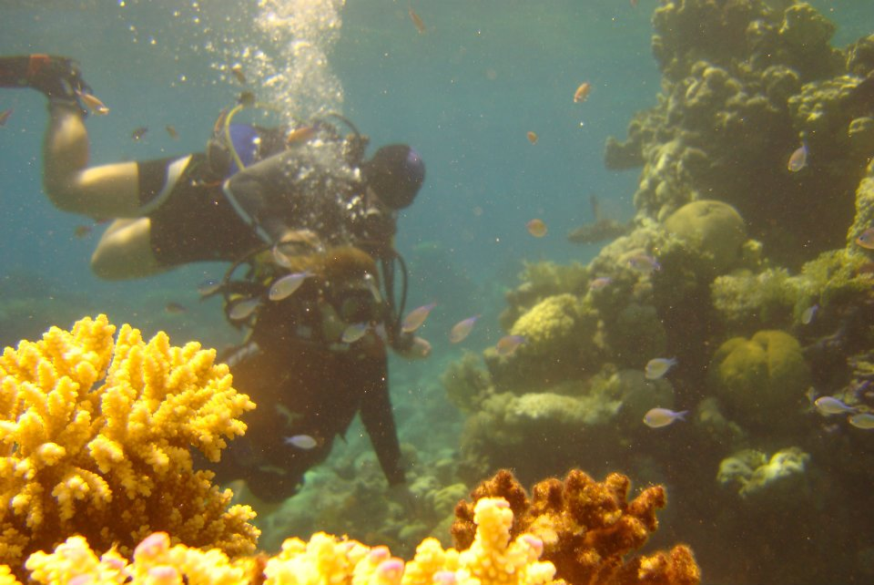 Geography of Israel